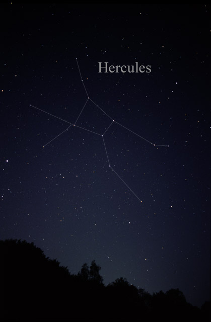 Photography of the constellation Hercules, the kneeling man